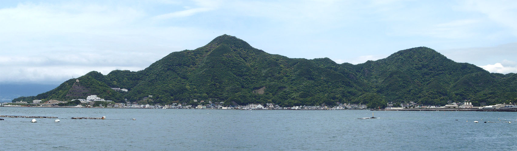 Mount Washizu and Mount Odaira as seen from the south in Numazu, Shizuoka Prefecture, Japan.